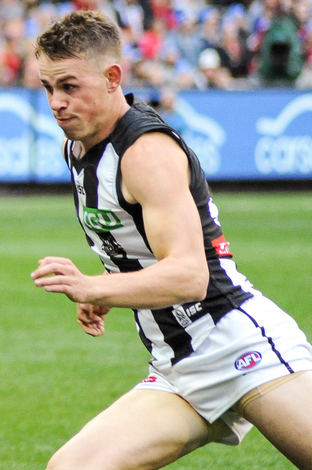 Ben Crocker during the AFL round twelve match between Melbourne and Collingwood on 12 June 2017 at the Melbourne Cricket Ground in Melbourne, Victoria.